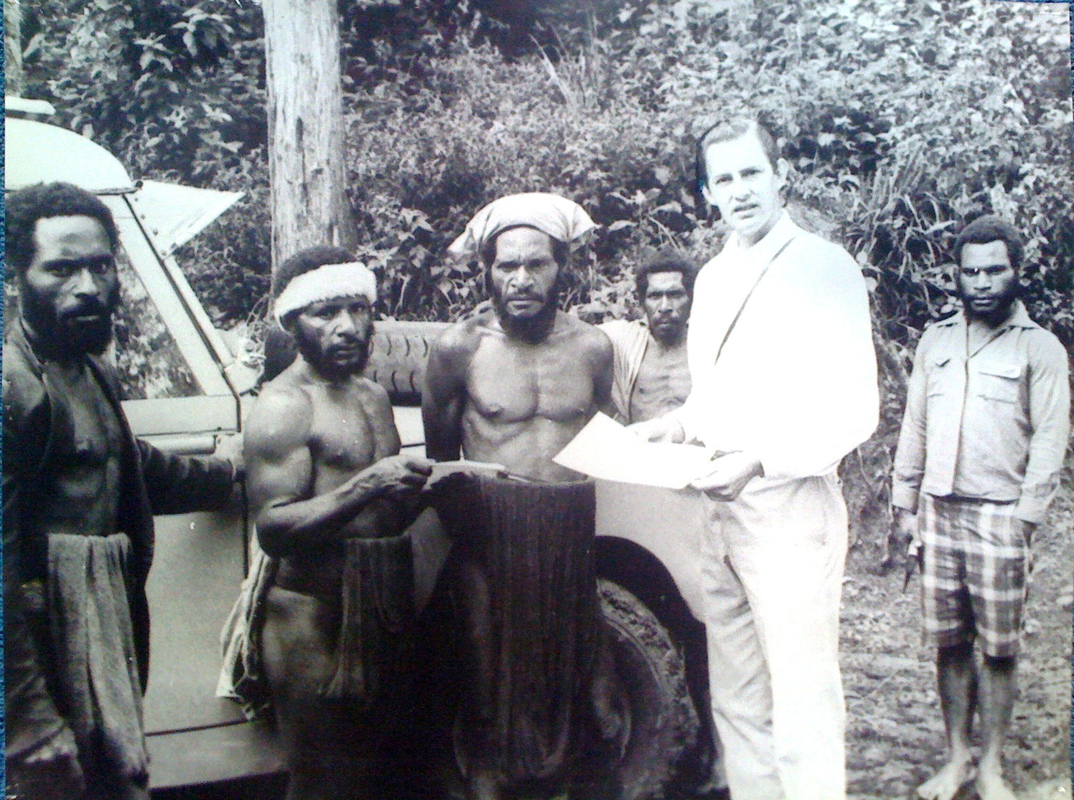 I took this photo of Johannes Maas whilepart of a team accompanying him on his mission to New Guinea